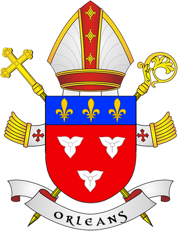 Coat of Arms of diocese of Orléans in France